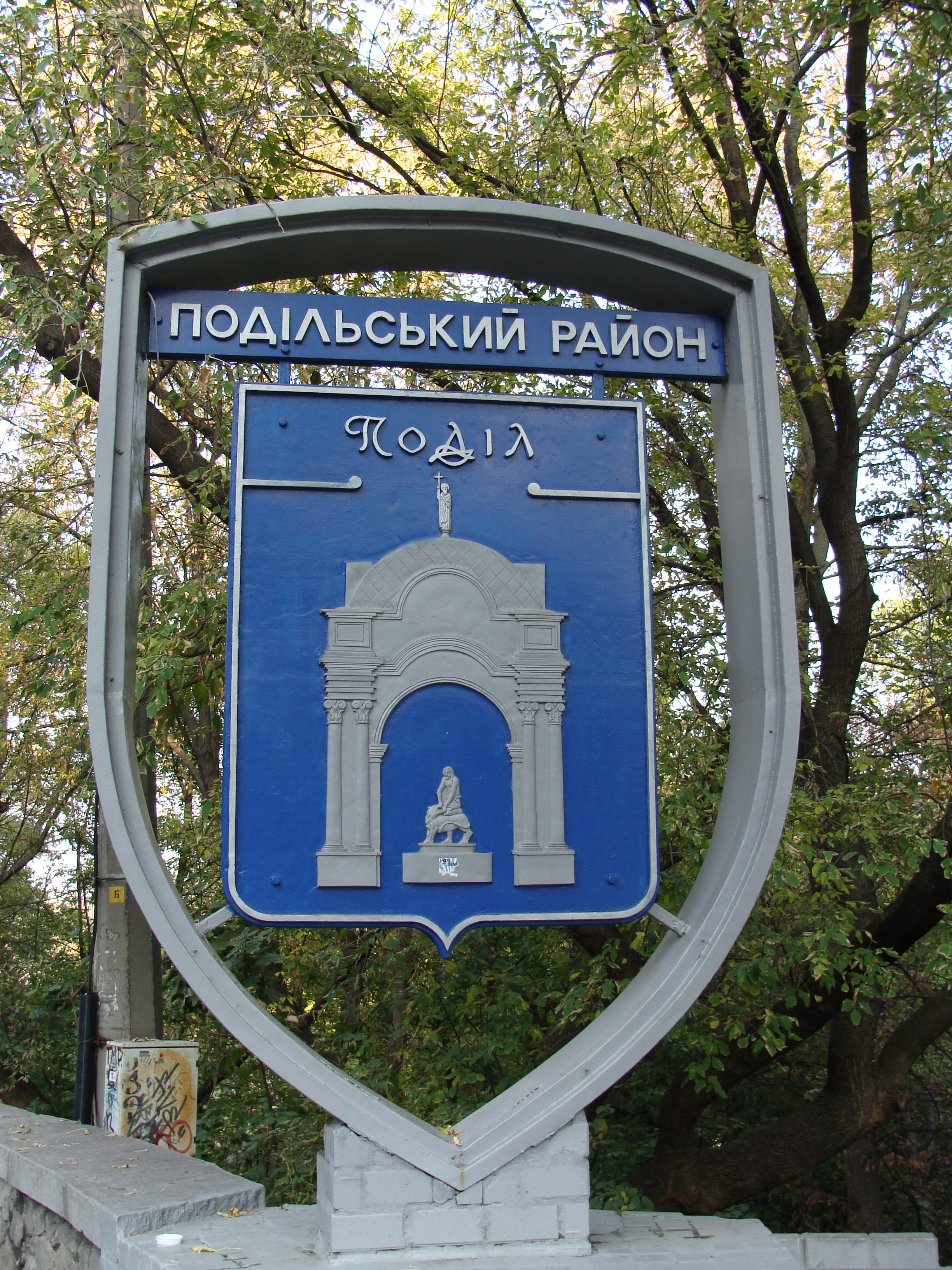 Coat of arms of Podil, Kiev